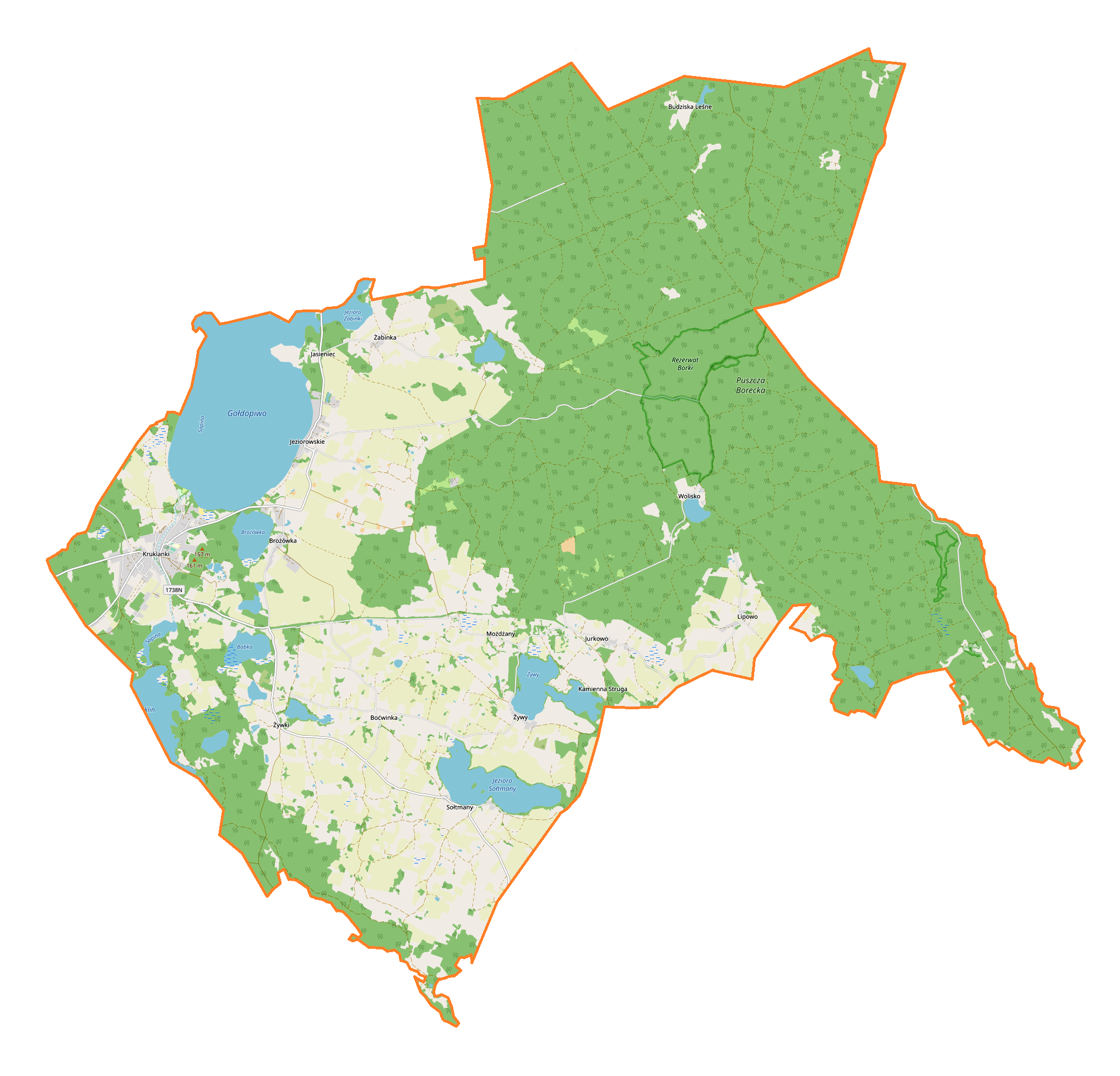 Location map